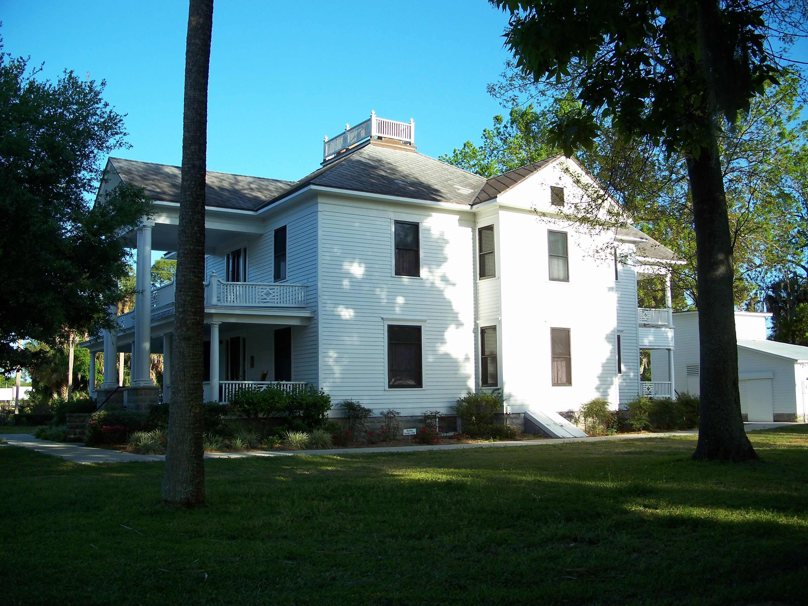 Clifford House, in Eustis, Florida